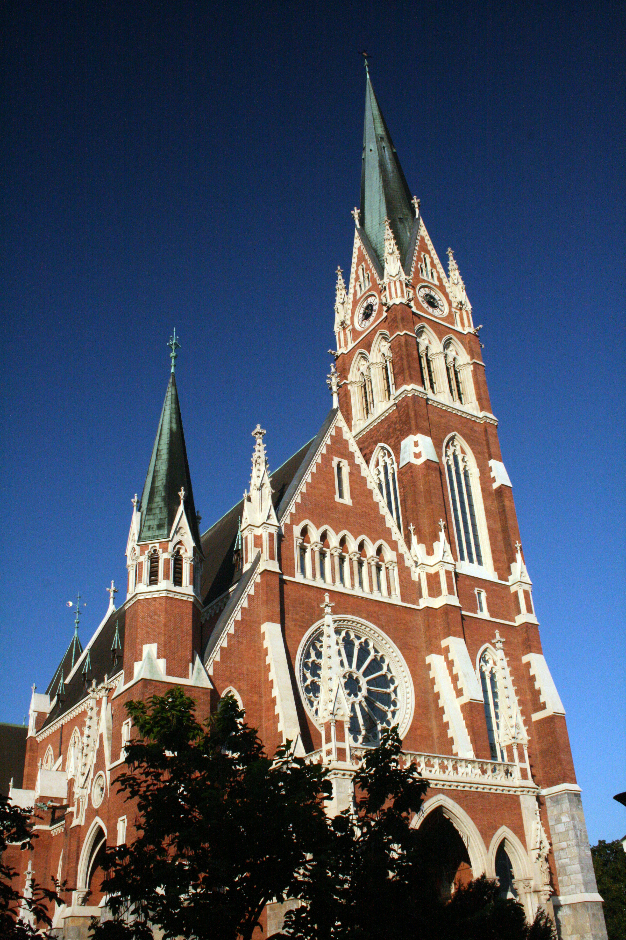 "Herz-Jesu-Kirche" (sacred heart church) in Graz, Austria, Europe